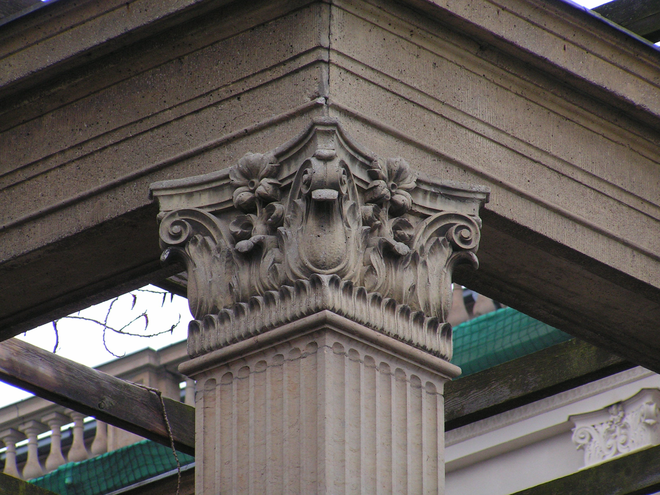 Kronprinzenpalais in Berlin, Germany. Column capital.